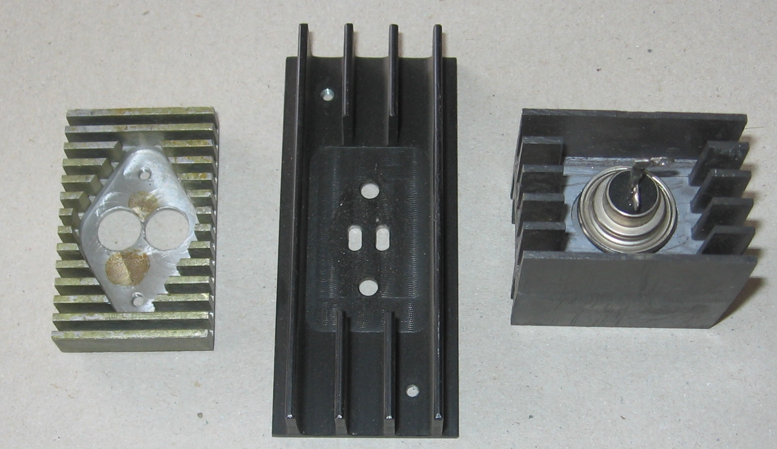 Aluminium radiators for power transistors (left & center) and for diodes or equivalent devices (right, with a power thyristor)